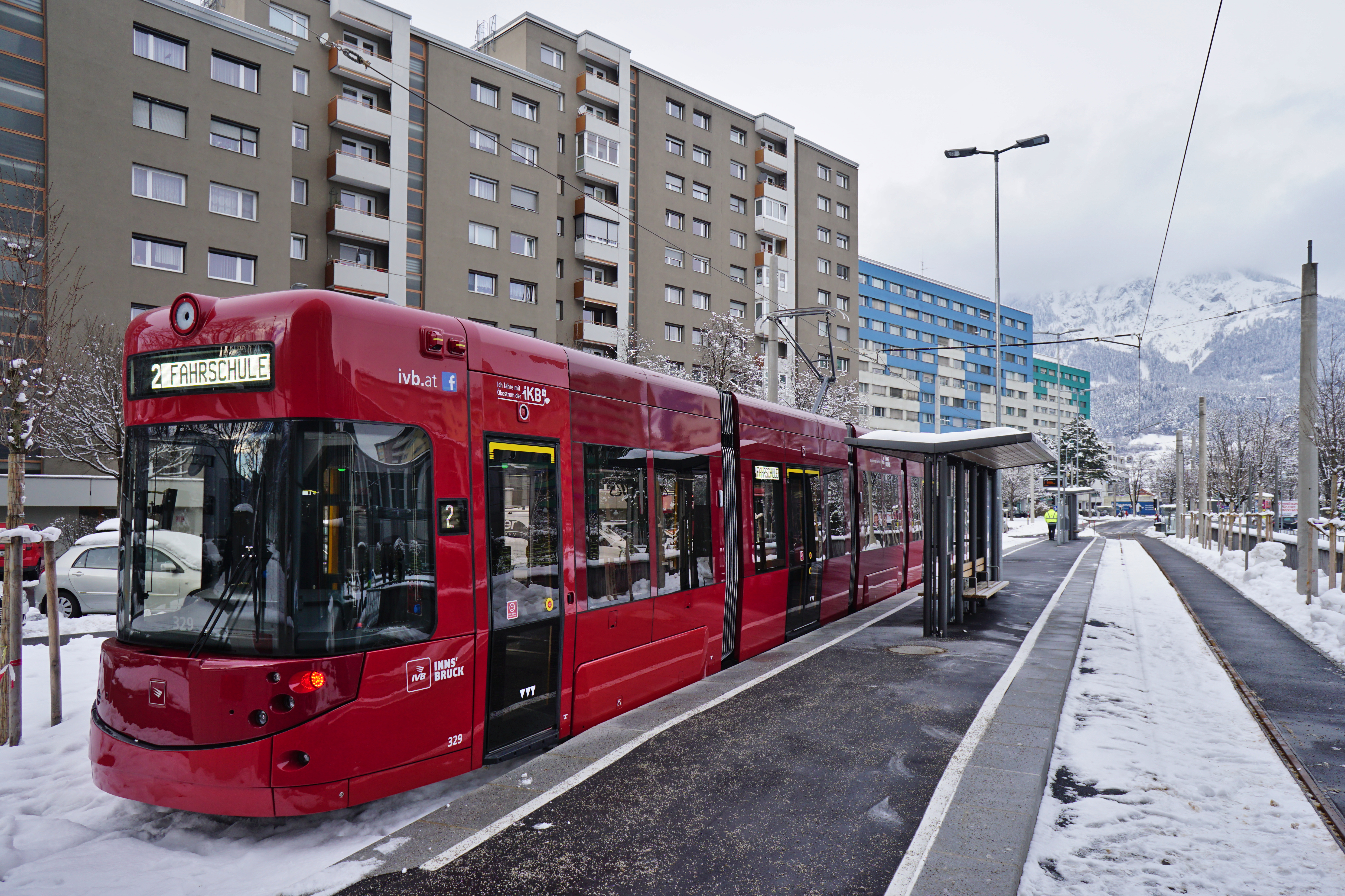 TW329 der Innsbrucker Straßenbahn wendet im Rahmen einer Schulungsfahrt an der Endstation der Linie 2 Alois-Lugger-Platz.